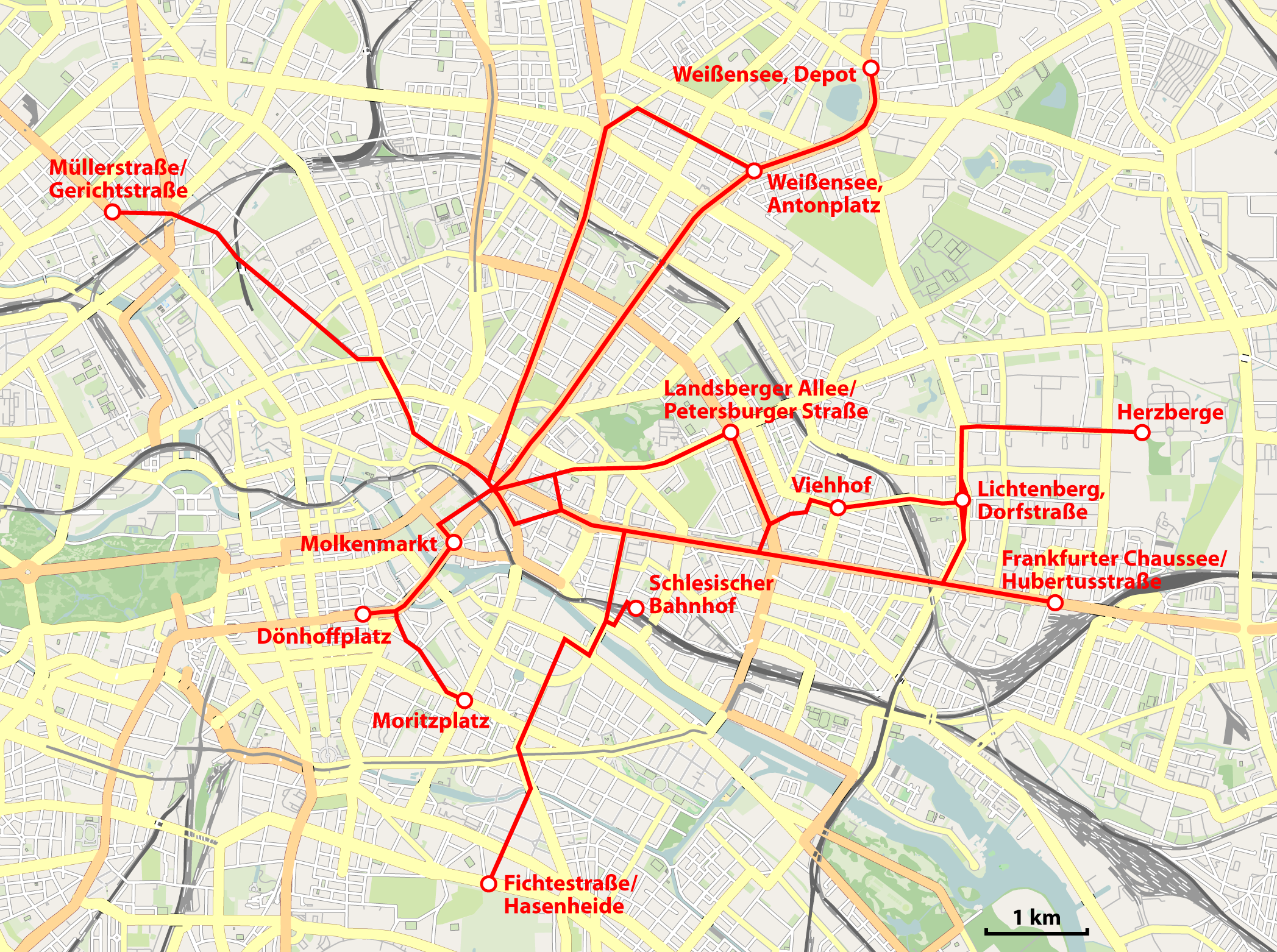 Network map of Neue Berliner Pferdebahn (New Berlin Horsecar) 1895 This map may be incomplete, and may contain errors. Don't rely solely on it for navigation.